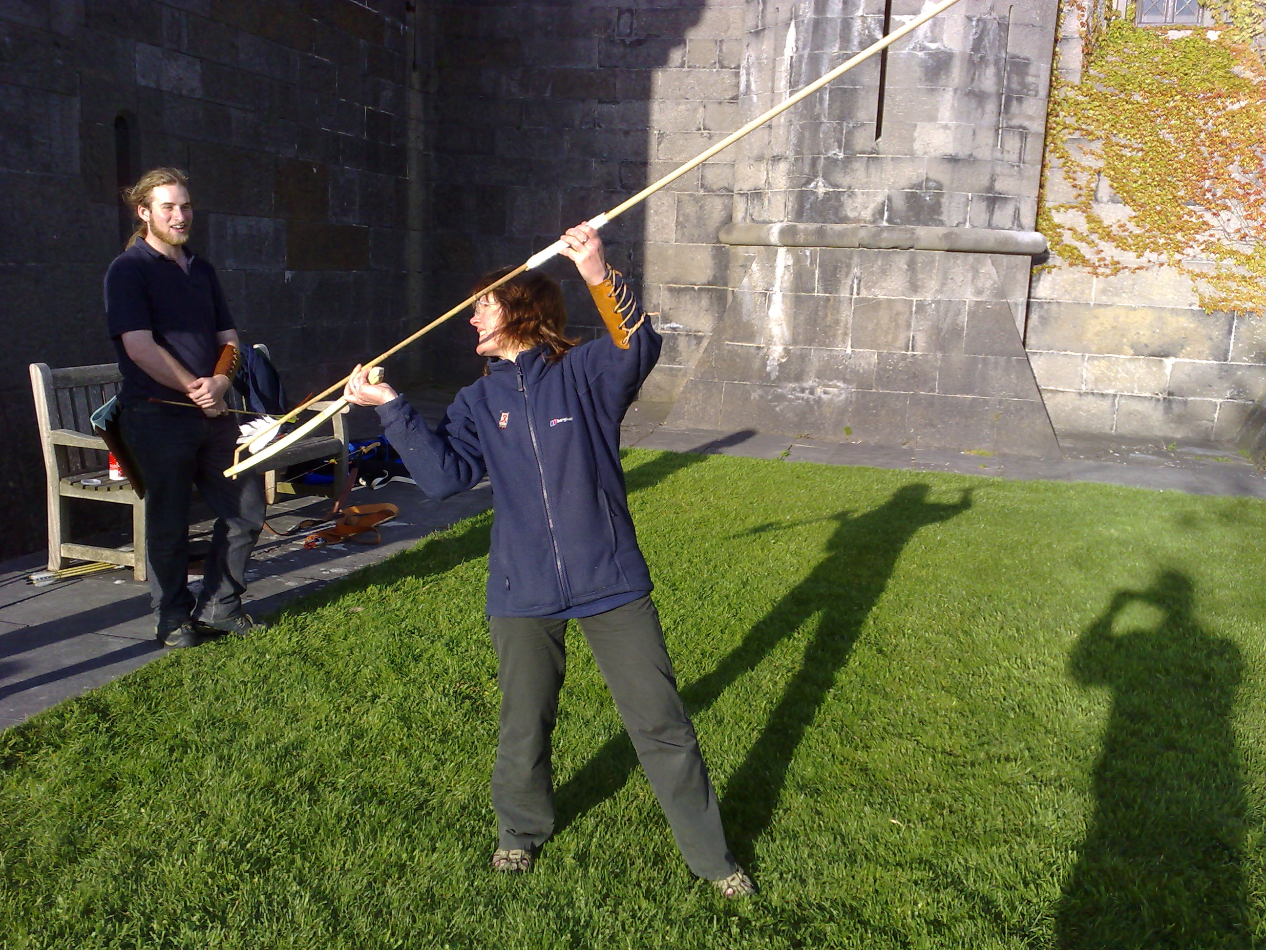 The base of the dart is carefully located on the spur of the atlatl, so that it can rotate during launch